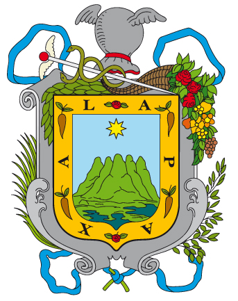 Coat of Arms of the City of Xalapa, Veracruz